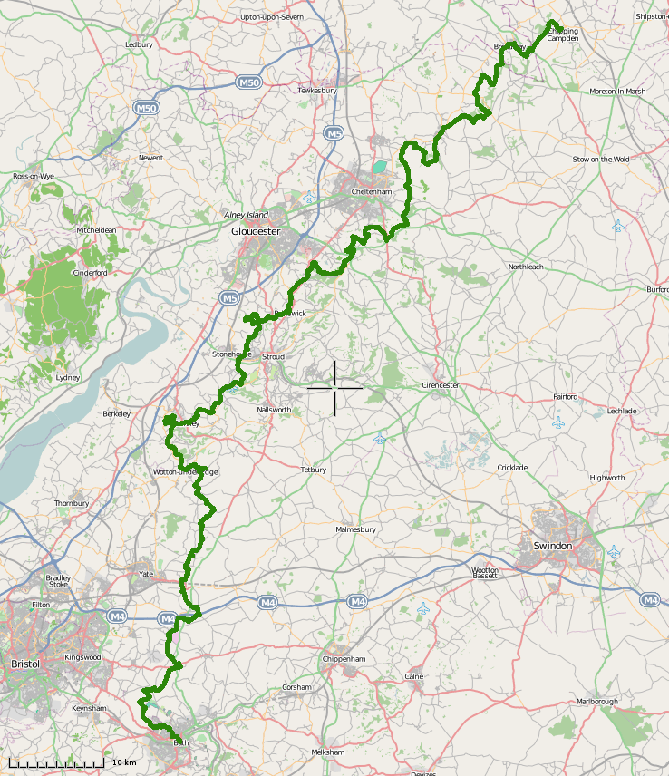 Map showing the route of the Cotswold Way — a long-distance footpath in the Cotswolds of western England (Gloucestershire area). Scale 128m per pixel.